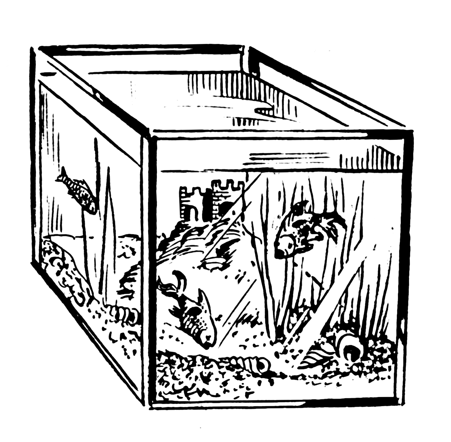 Line art drawing of an aquarium